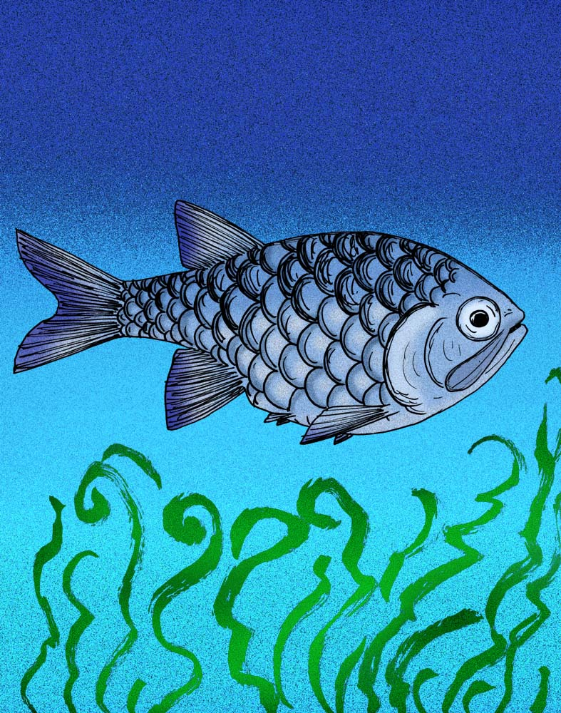 Reconstruction of the basal osteoglossoid, Yungkangichthys hsitanensis, from Lower Cretaceous China.